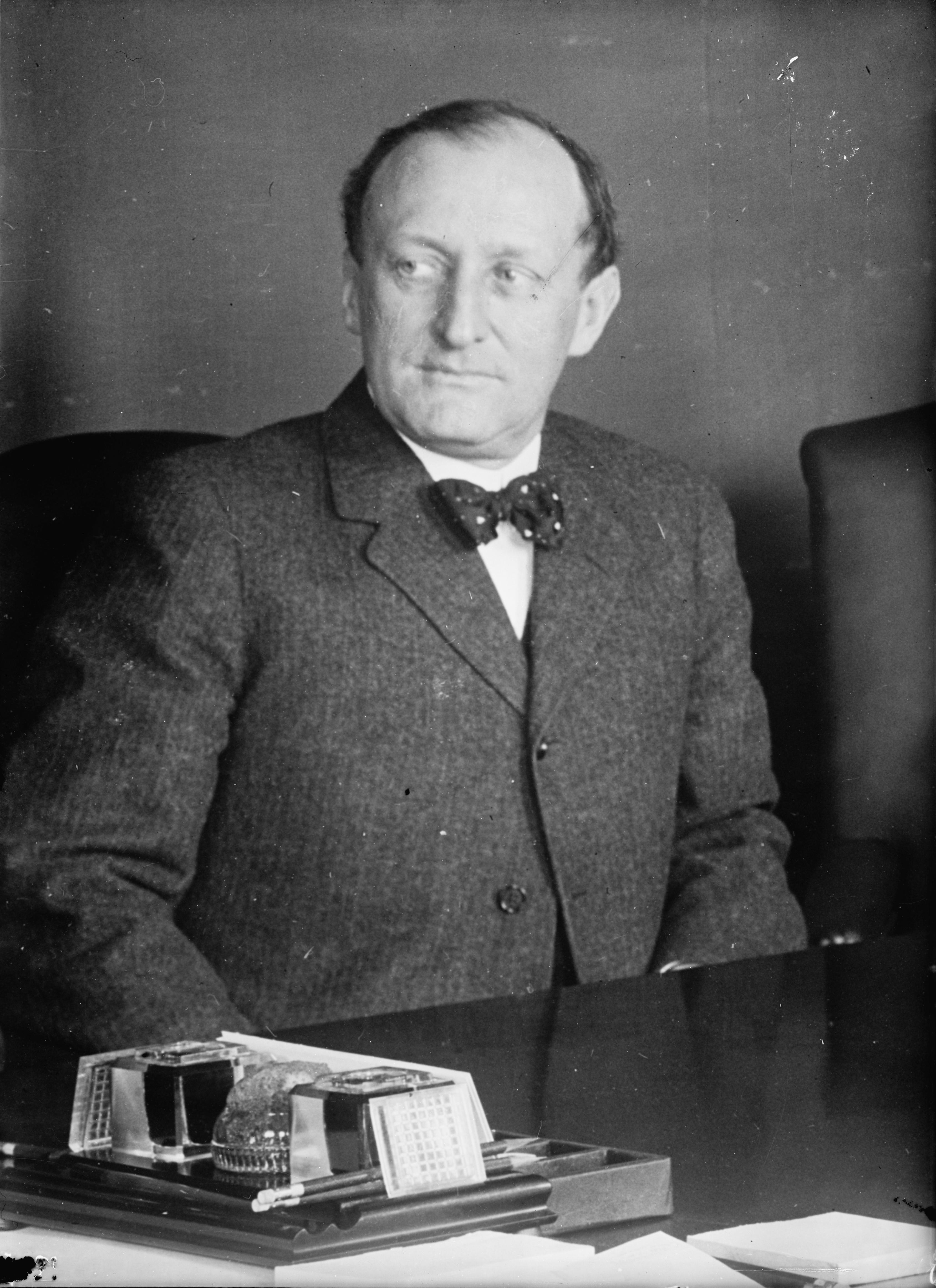 James C. McReynolds, half-length portrait, seated, facing slightly left